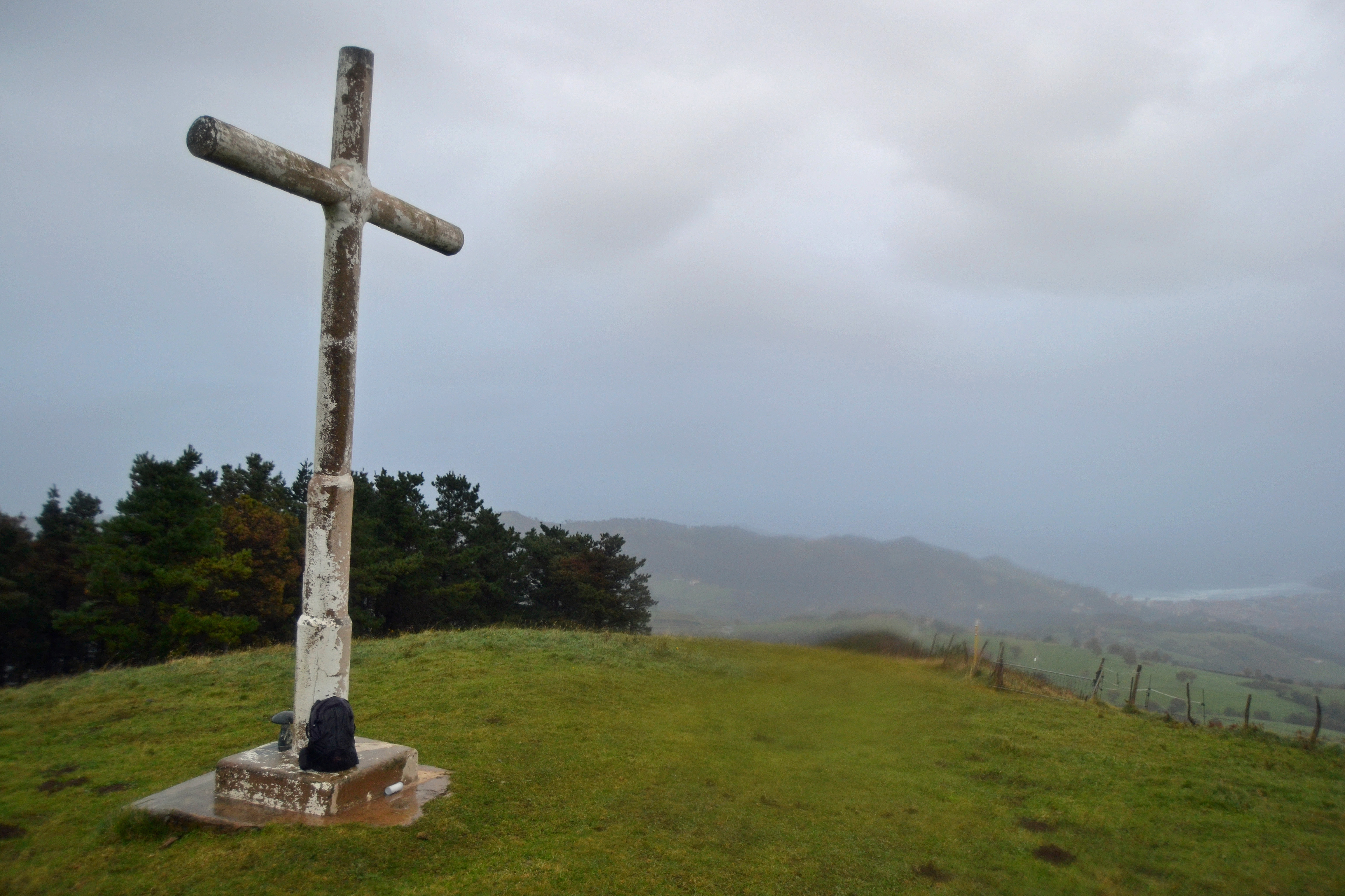 Indamendi, Gipuzkoa, Basque Country